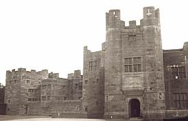 Photo of Castle Drogo, Devon